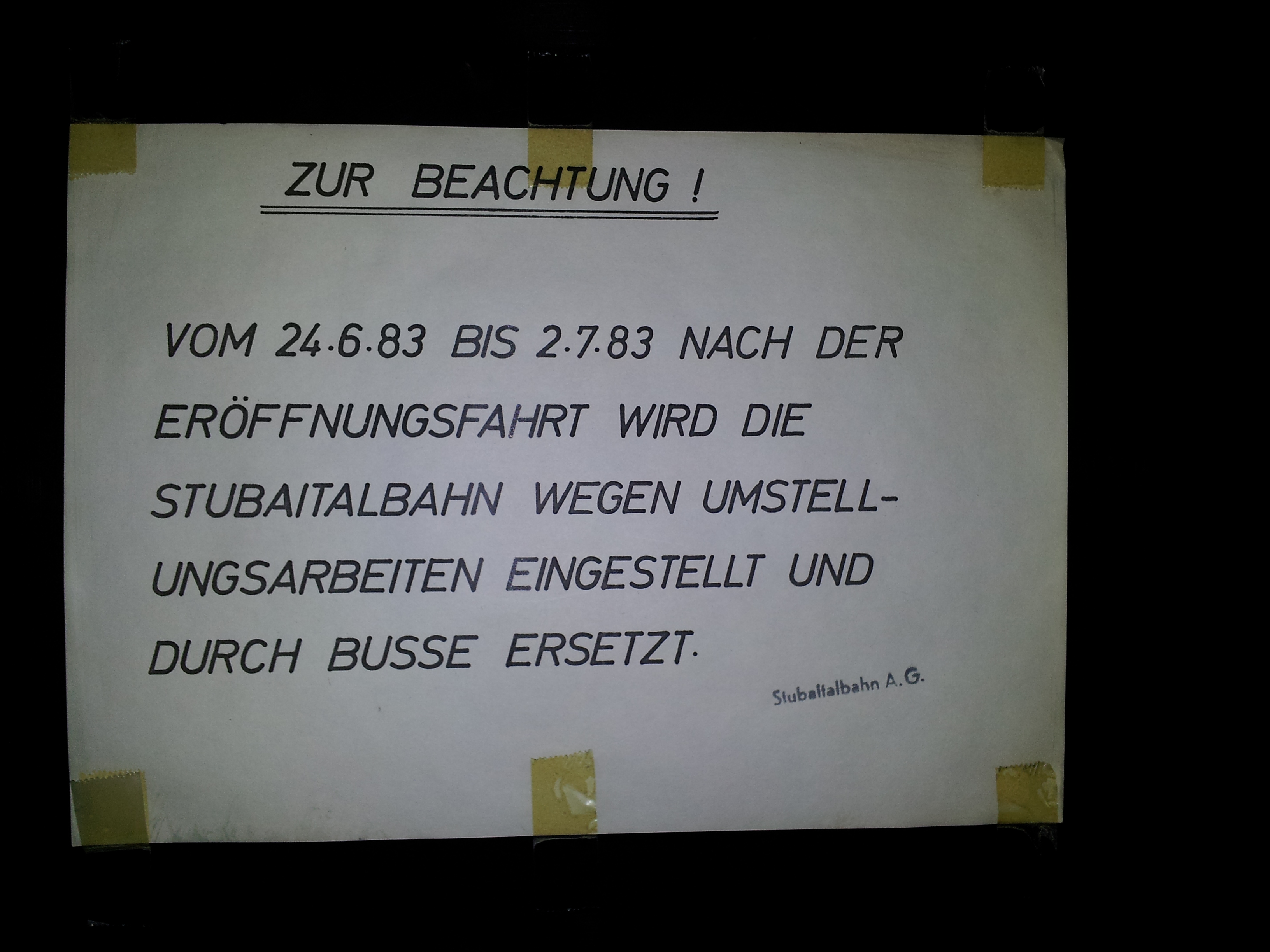 Die Umstellung der Stubaitalbahn auf Gleichstrom 1983 wurde in den Bahnen (auf dem Foto TW4) angekündigt.